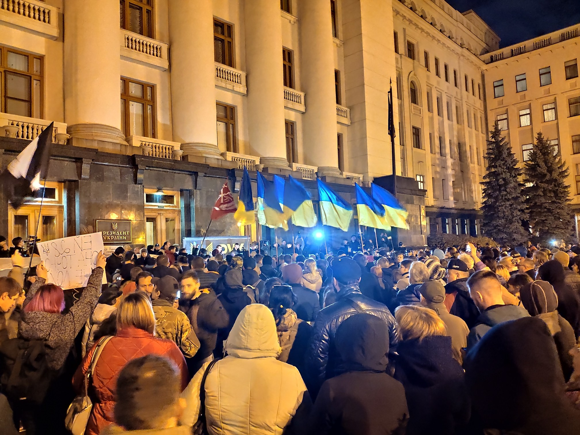 NO to capitulation! Protests in Kyiv. Oct 29, 2019.